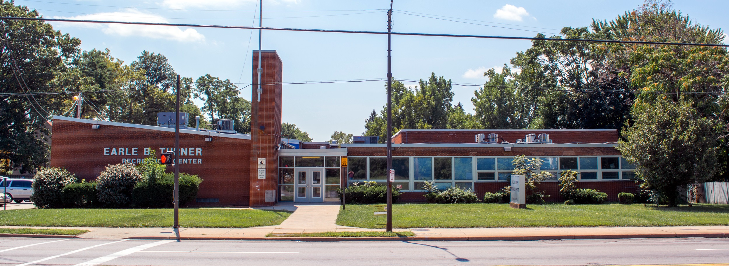 The Earle B. Turner Recreation Center at 11300 Miles Avenue in the Union-Miles Park neighborhood of Cleveland, Ohio, in the United States. The city purchased this former YMCA building in December 2004 and converted it into a public recreation center. It was named the Earle B. Turner Recreation Center, in honor of the retired Cleveland City Council member and then-clerk of the Cleveland municipal courts.